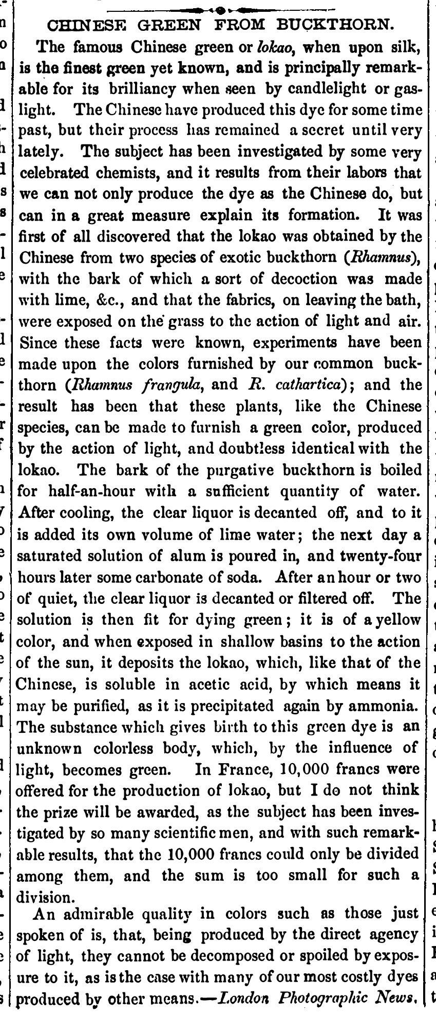 Article Chinese Green from Buckthorn, Scientific American, Series 2, Volume 2, Issue 18, New York, 1800